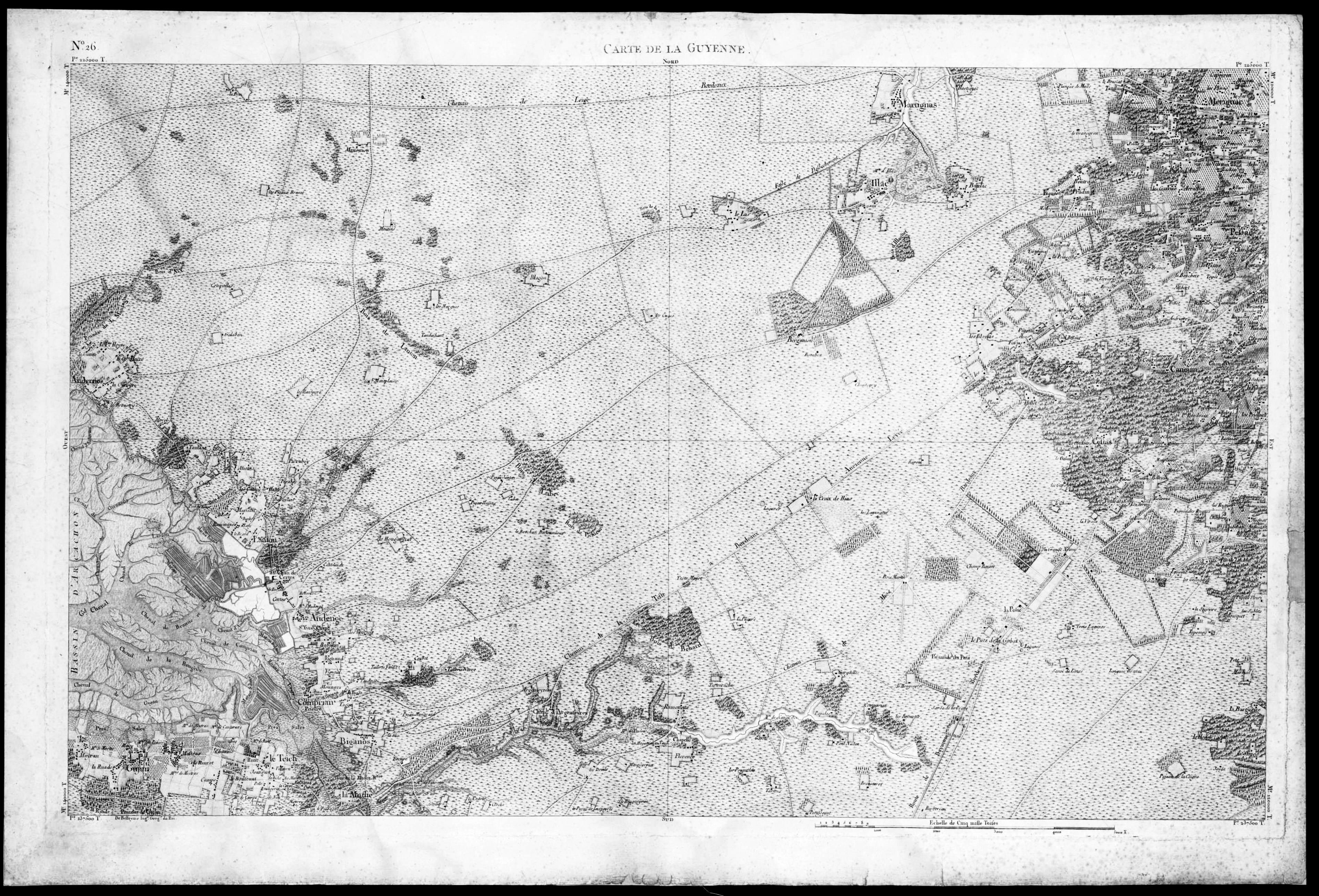 Carte de Belleyme